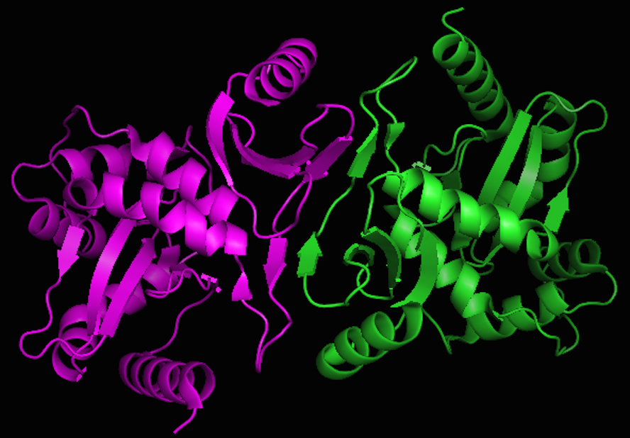 DsbC Close up